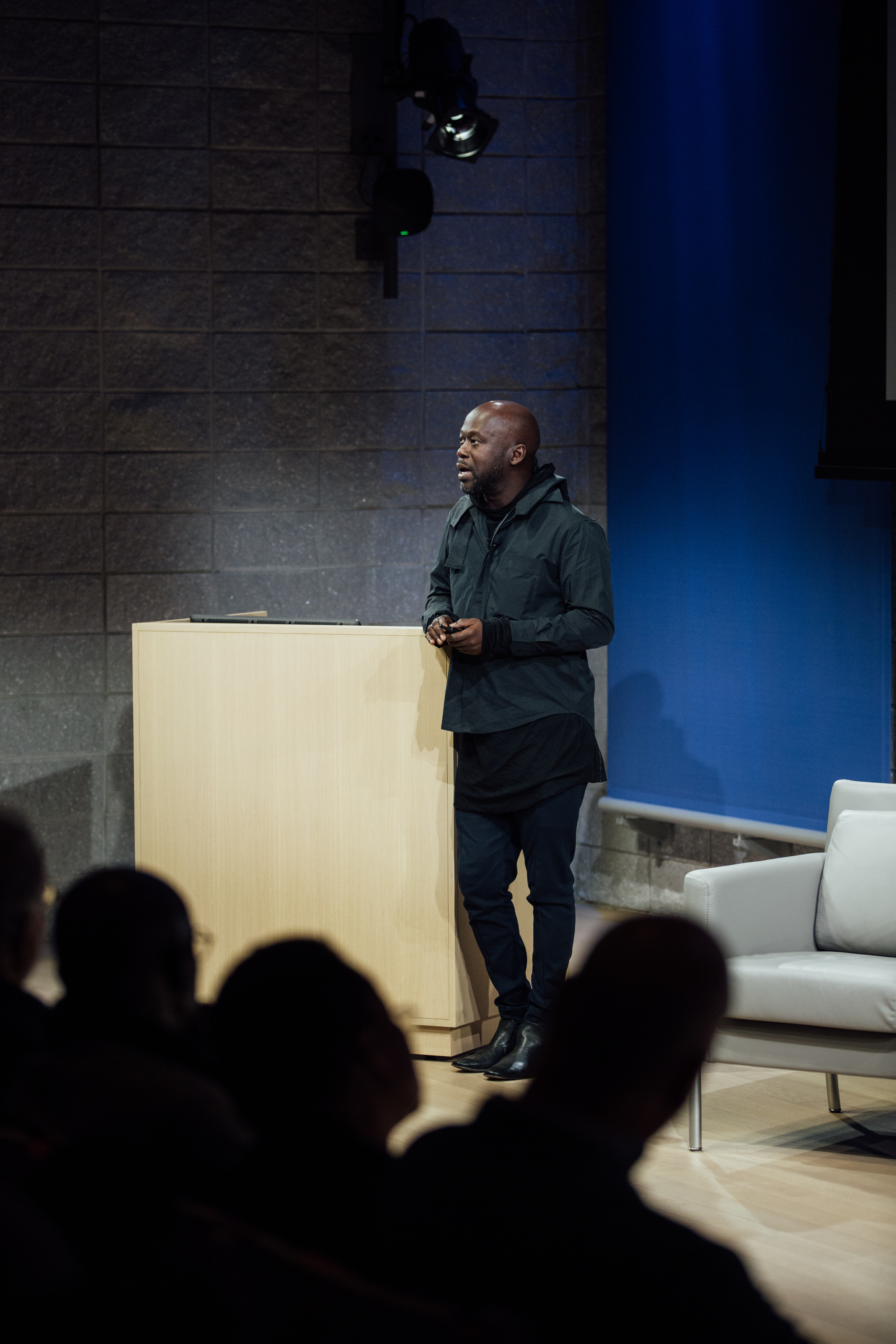 A lecture by David Adjaye, founder of Adjaye Associates, followed by a conversation with Thelma Golden and Amale Andraos.